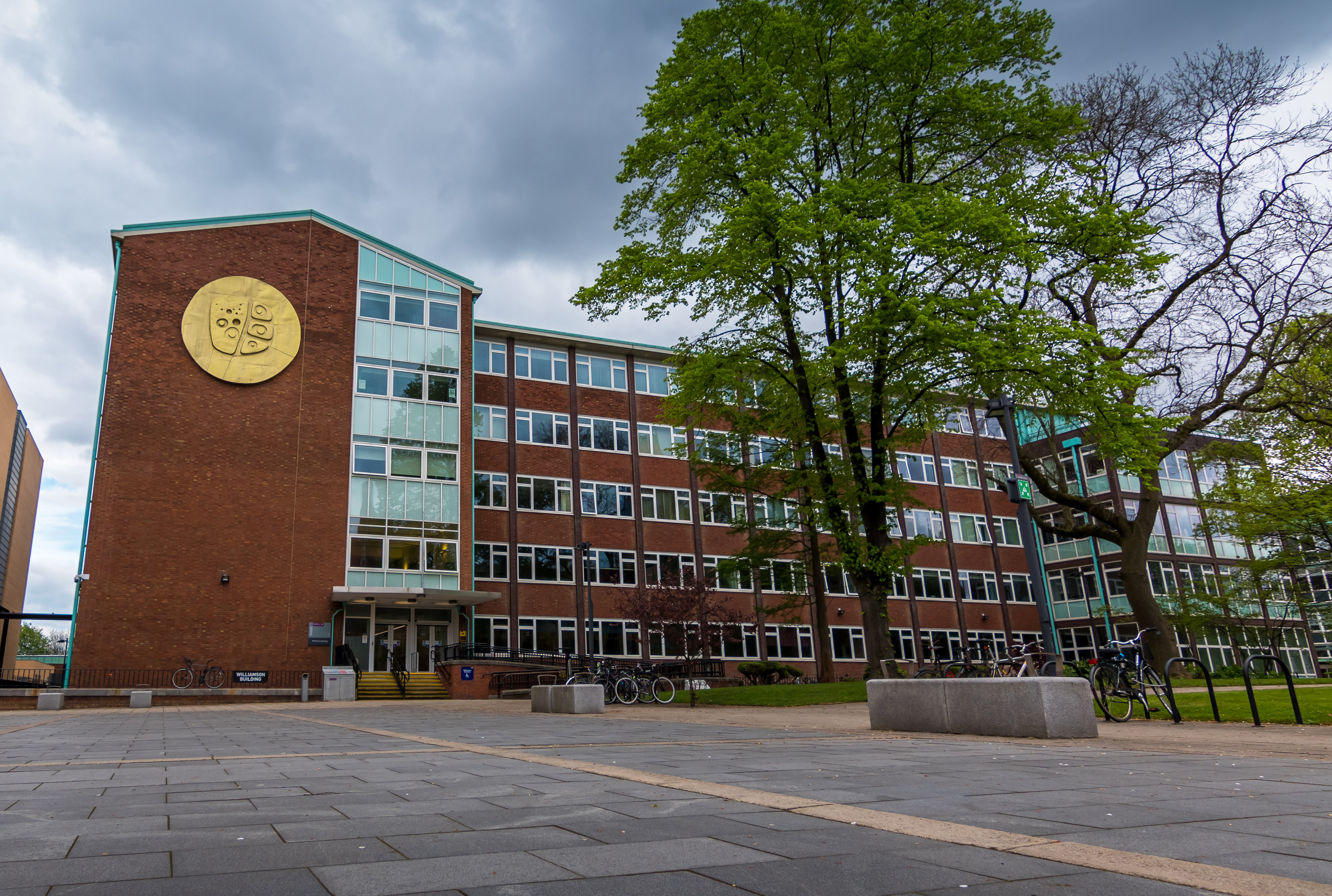 The Williamson Building at The University of Manchester behind paths, grass and trees.